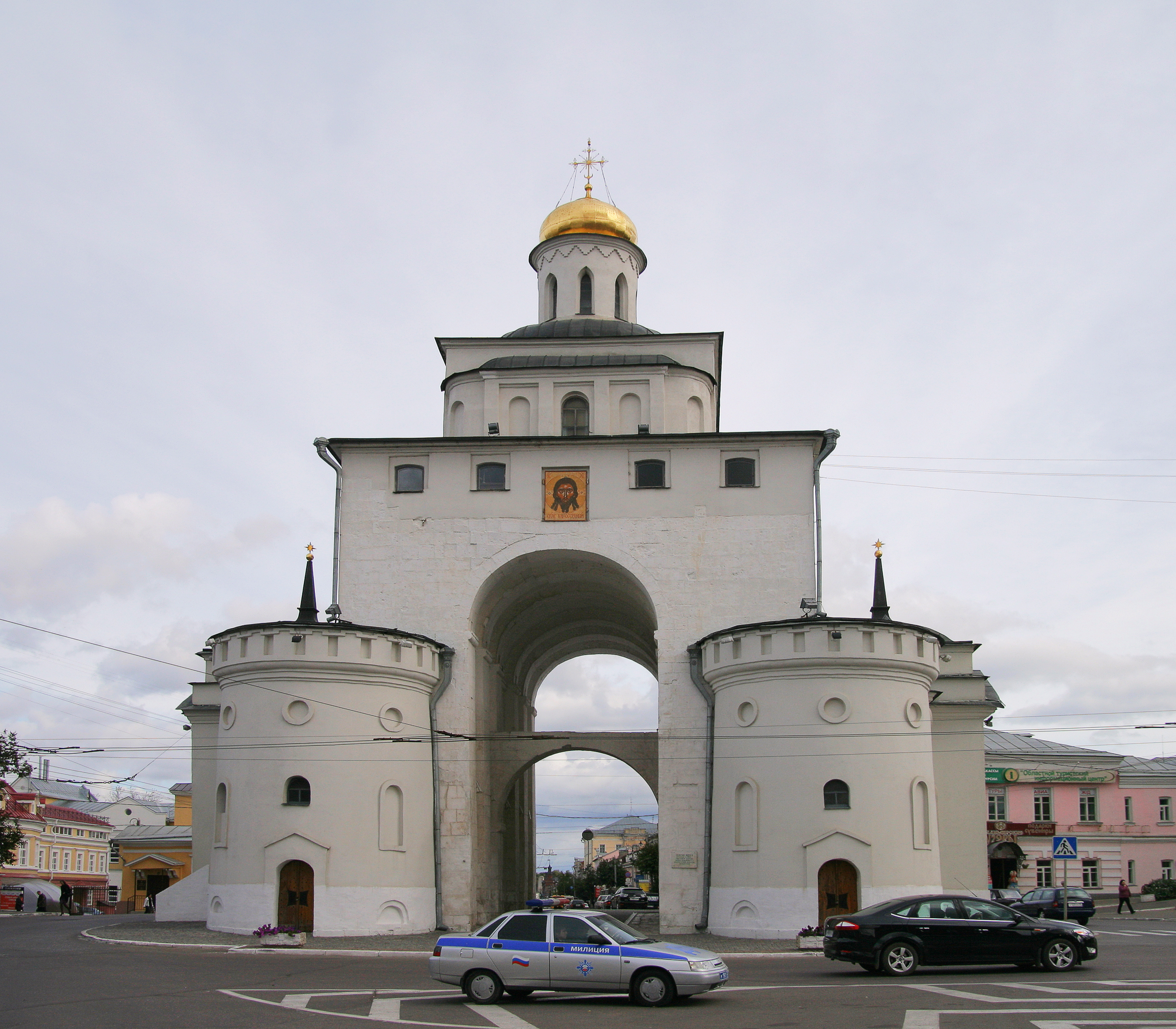 Golden Gate, XII, the end of the XVIII - the beginning of the XIX c, Vladimir